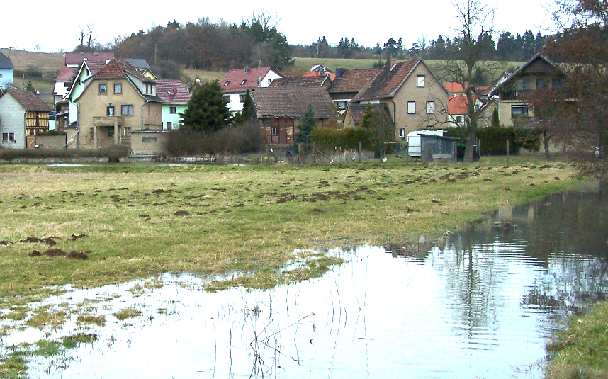 The Rohrgraben in Unterrohn village.